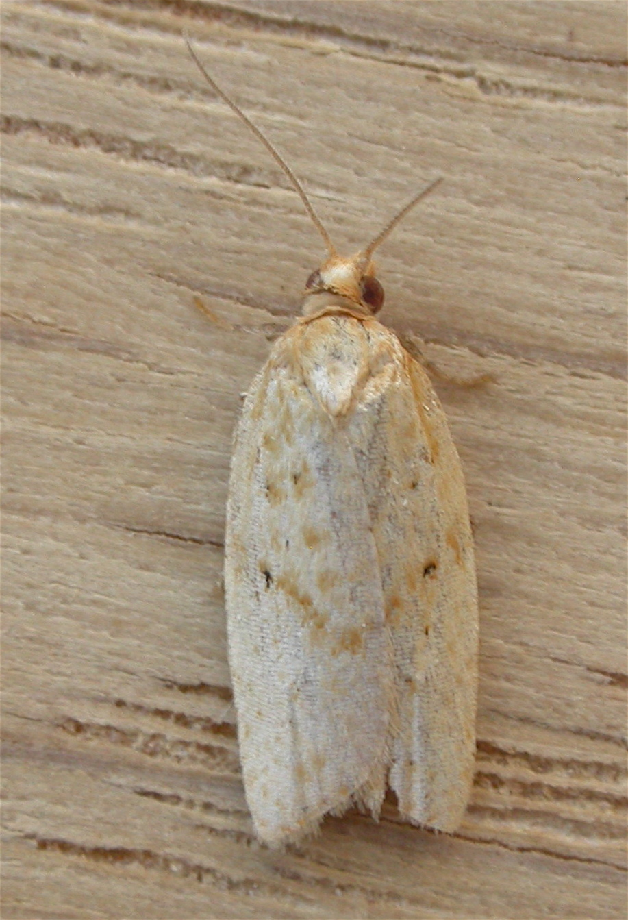 Merophyas divulsana (Walker, 1863), to MV light, Aranda, ACT, 15/16 February 2009